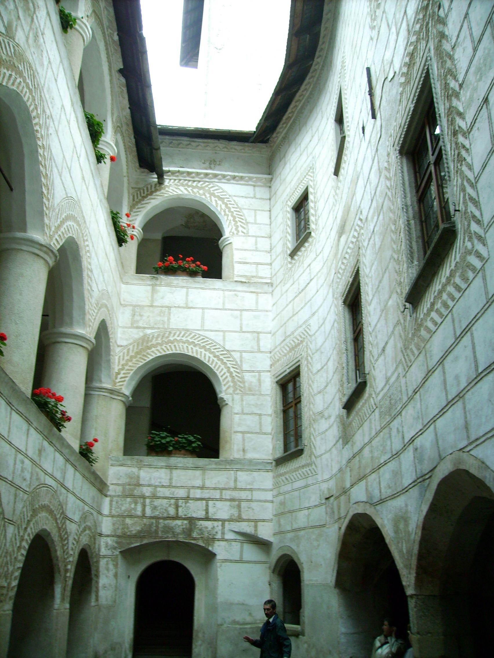 Castle of Rapottenstein in Lower Austria